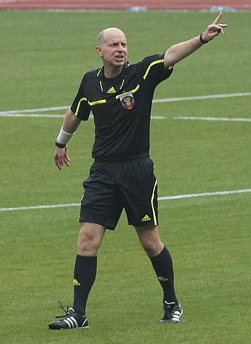 Alexandr Kolobaev